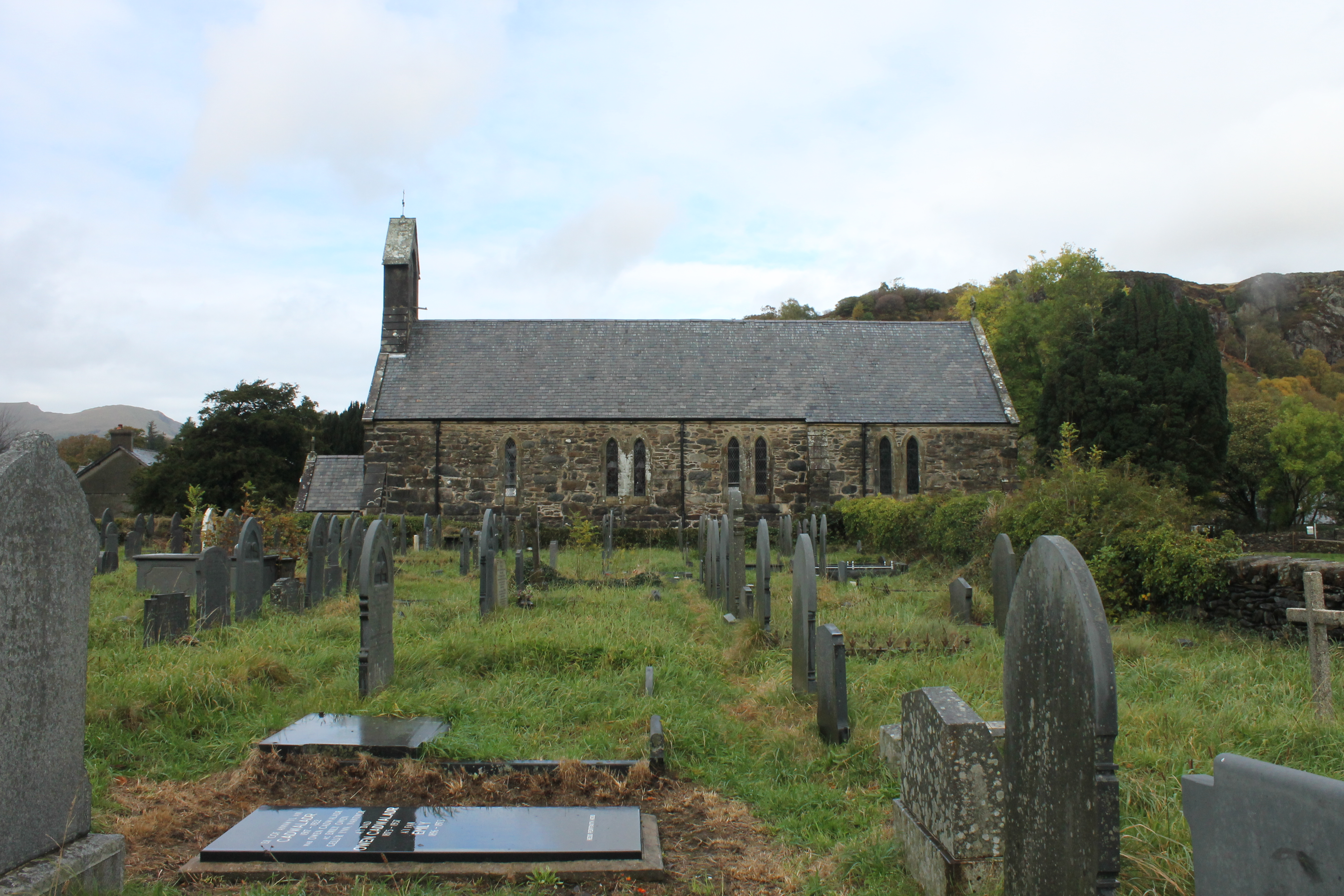 St Mary's church, Beddgelert, Gwynedd, Wales